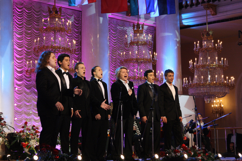 Romansiada